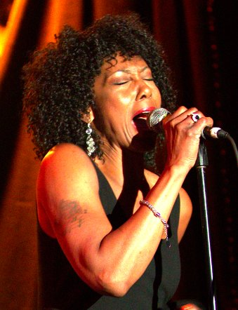 Cynthia Johnson, performing during the VIP Screening Party organised by Megabien Entertainment, at the MN Music Cafe, on May 8th, 2013